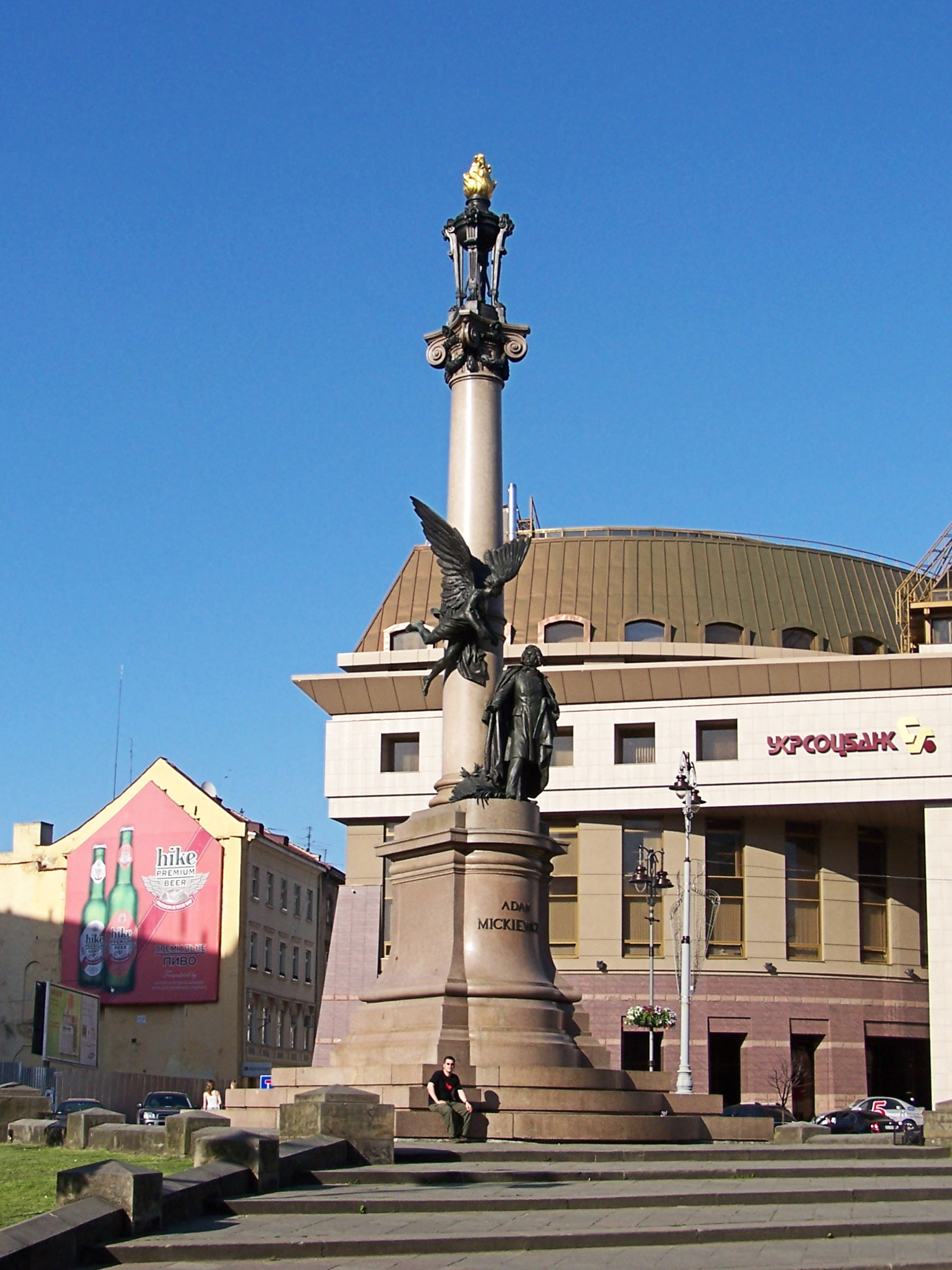 Monument of polish poet Adam Mickiewicz in Lviv (Ukraine).